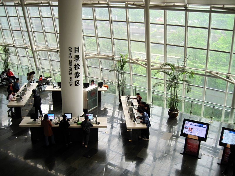 The OPAC service area of Chongqing Library,China. 中文（中国大陆）: 重庆图书馆的目录检索区。